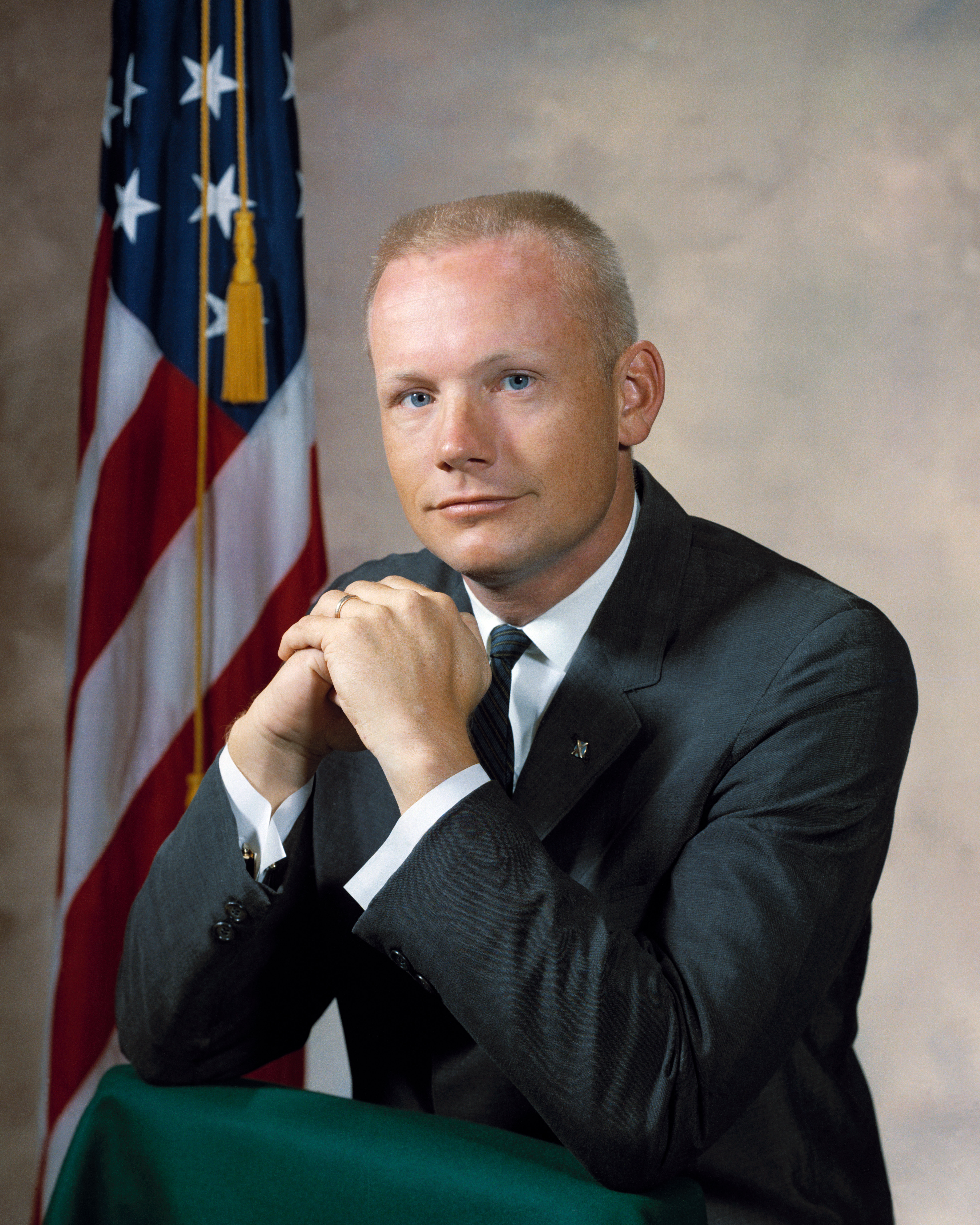 Portrait of astronaut Neil A. Armstrong.